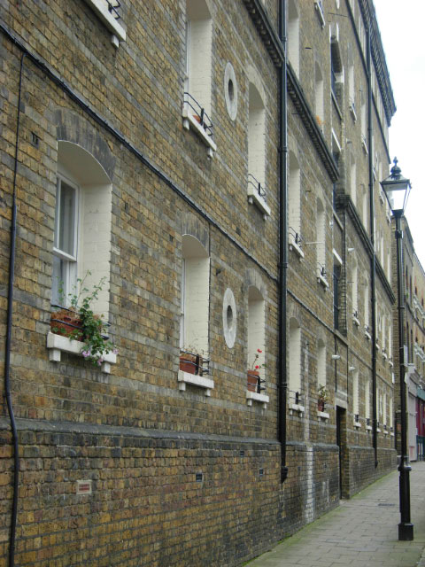 Greenman Street, Islington The building seen here, on the south side of Greenman Street, is part of the Peabody Trust's Islington Estate. Peabody housing was the idea of American philanthropist George Peabody who moved to London and set about tackling the poverty he saw there. This block dates from 1865, making it one of the earliest examples; the characteristic architecture may seem rather severe to modern eyes, but this was a vast improvement on the slum accommodation that was occupied by many Victorian Londoners. Today, the Peabody Trust is a charitable institution housing about 50,000 people with estates - of varying vintages - across London.